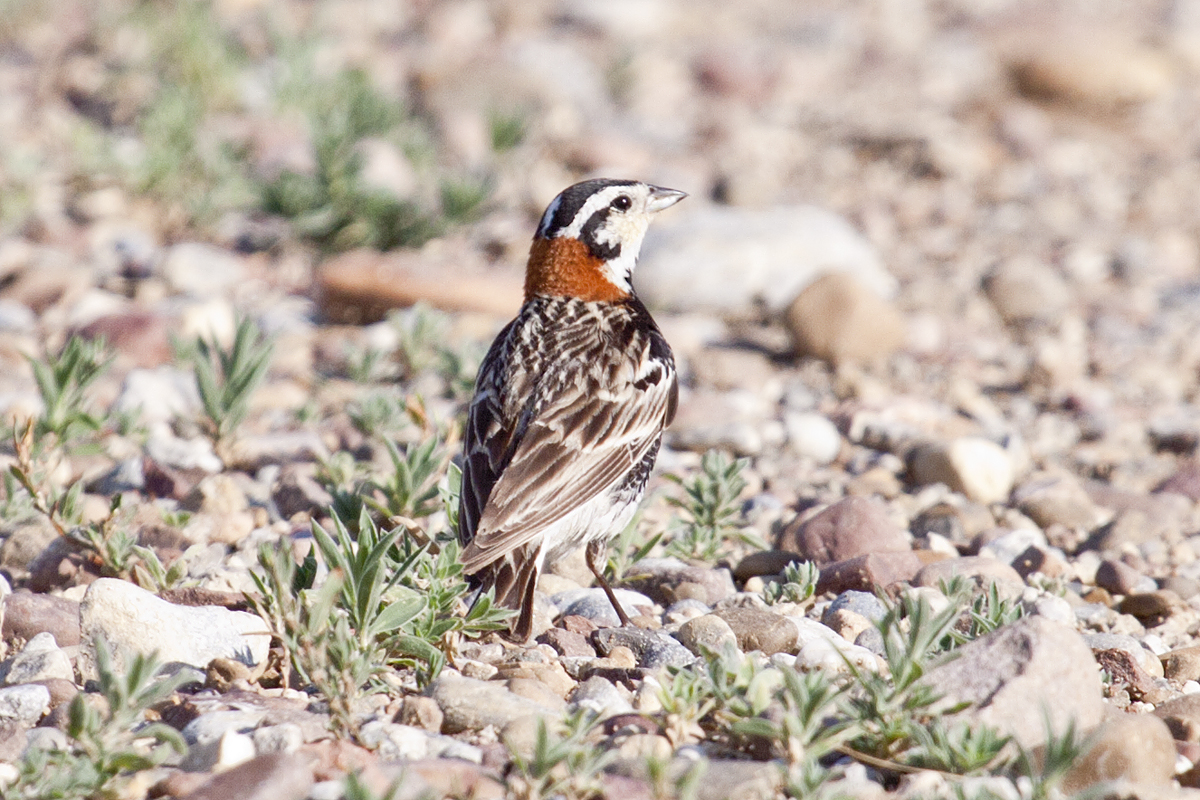 Benton National Wildlife Refuge, Great Falls MT, USA. July 14